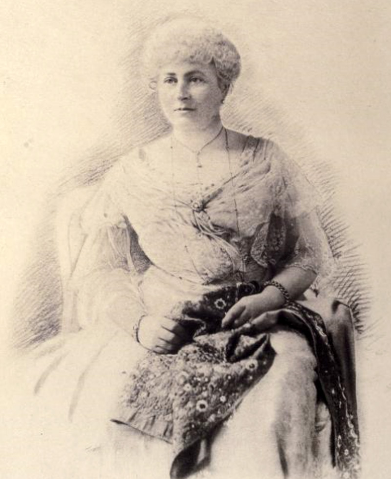 Patience Mary Palmer-Morewood, lived at Alfreton Hall